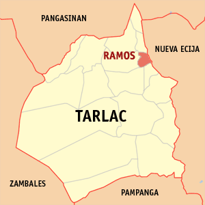 Map of Tarlac showing the location of Ramos